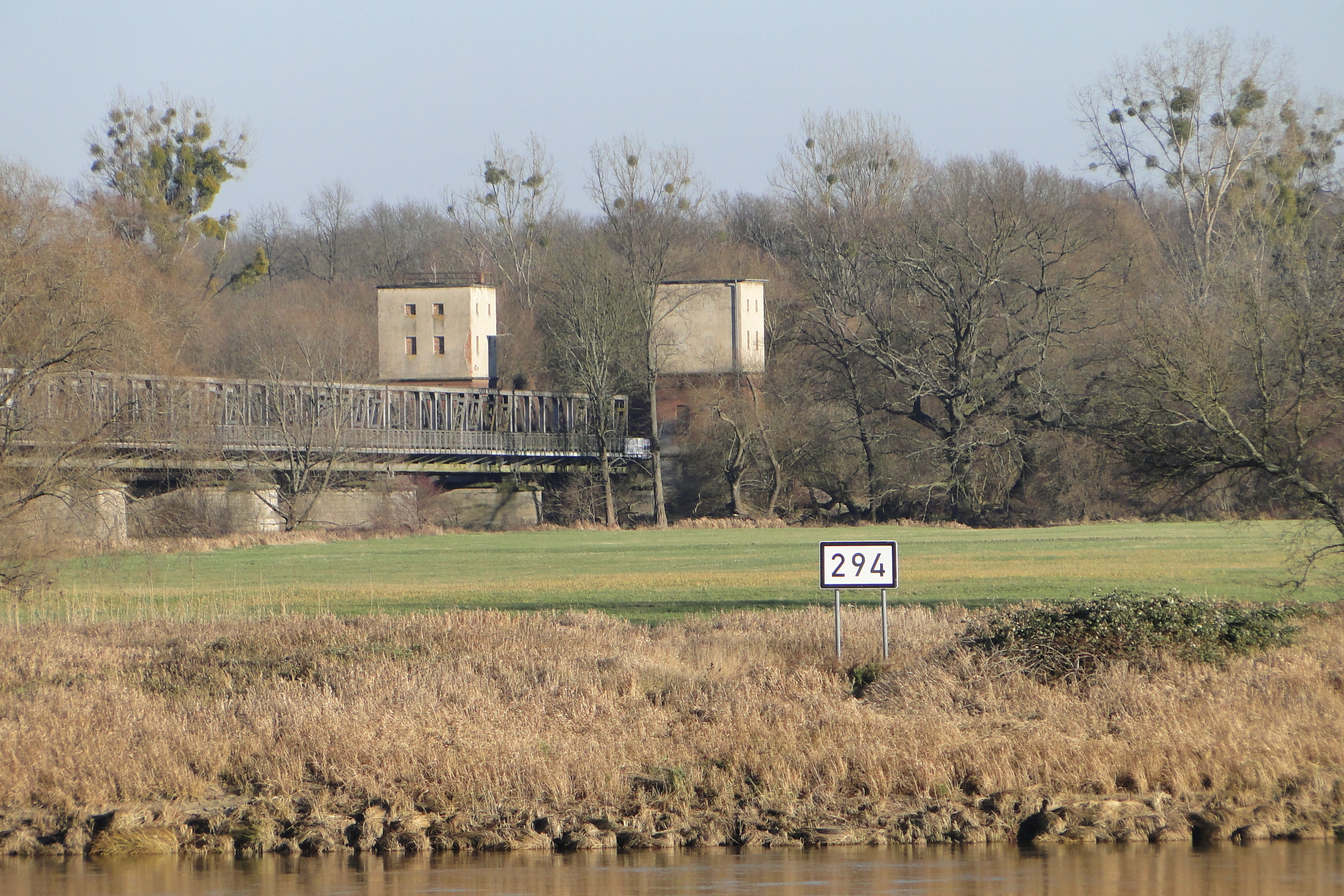 Railway bridge over the Elbe river near Barby, Salzlandkreis, Sachsen-Anhalt, Deutschland